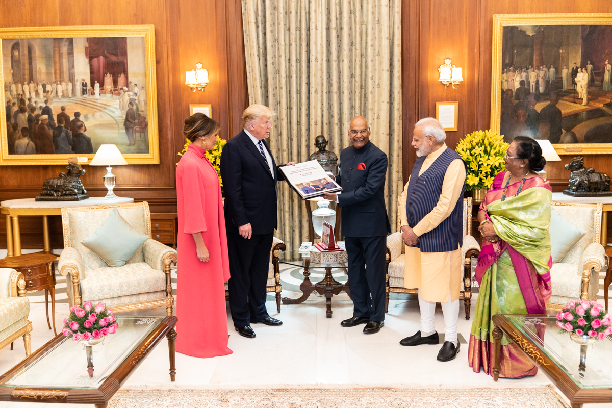 President Donald J. Trump and First Lady Melania Trump, joined by Indian Prime Minister Narendra Modi, receive a gift from Indian President Ram Nath Kovind and his wife Mrs. Savita Kovind following a state banquet Tuesday, Feb. 25, 2020, at Rashtrapati Bhavan, the Presidential Palace, in New Delhi, India. (Official White House Photo by Shealah Craighead)